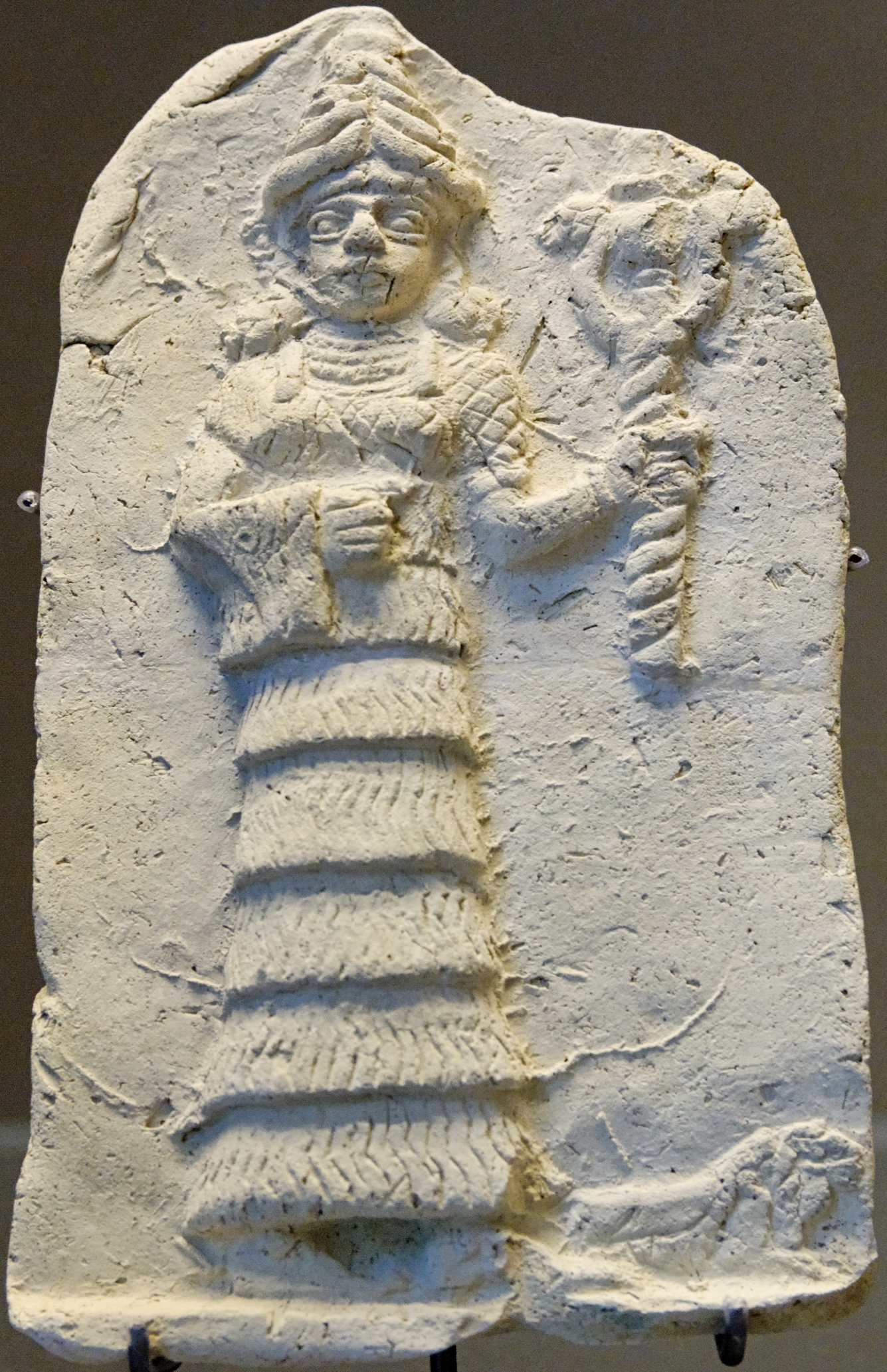 Ishtar holding her symbol. Terracotta relief, early 2nd millennium BC. From Eshnunna.